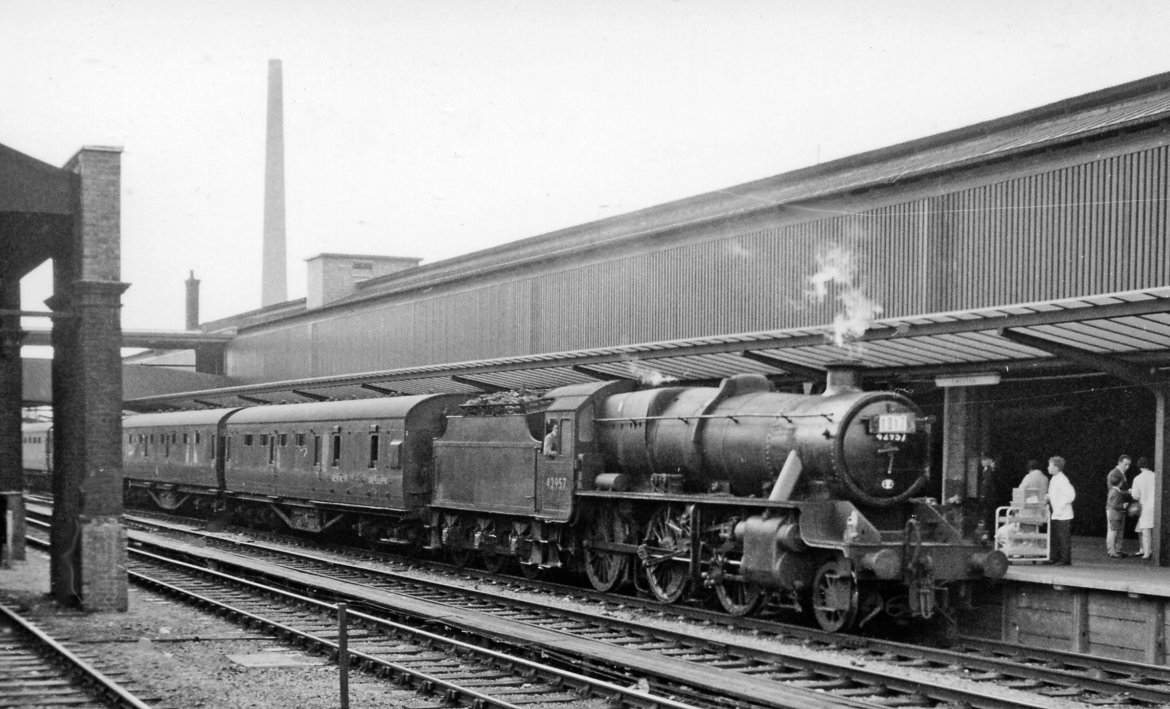 Chester General Station, with Birmingham - Llandudno express. View eastward, towards Crewe, Manchester etc. On a Summer Saturday the 07.45 Birmingham New Street - Llandudno calls at No 4 Down platform with Stanier 5MT 2-6-0 No. 42957 (built 12/33 as No. 13257, withdrawn 1/66). (See SJ4166 : Chester General Station, with Up holiday express for the same locomotive on its return journey).